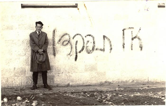 Abba Ahimeir (Abba Shaul Geisinovich) standing by a wall with the graffiti (in Hebrew): al tippaqdu ("do not forsake").